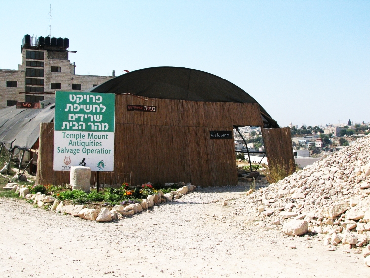 Temple Mount Salvage Operation, Ein Tsurim National Park, at the foot of Mount Scopus, Jerusalem.